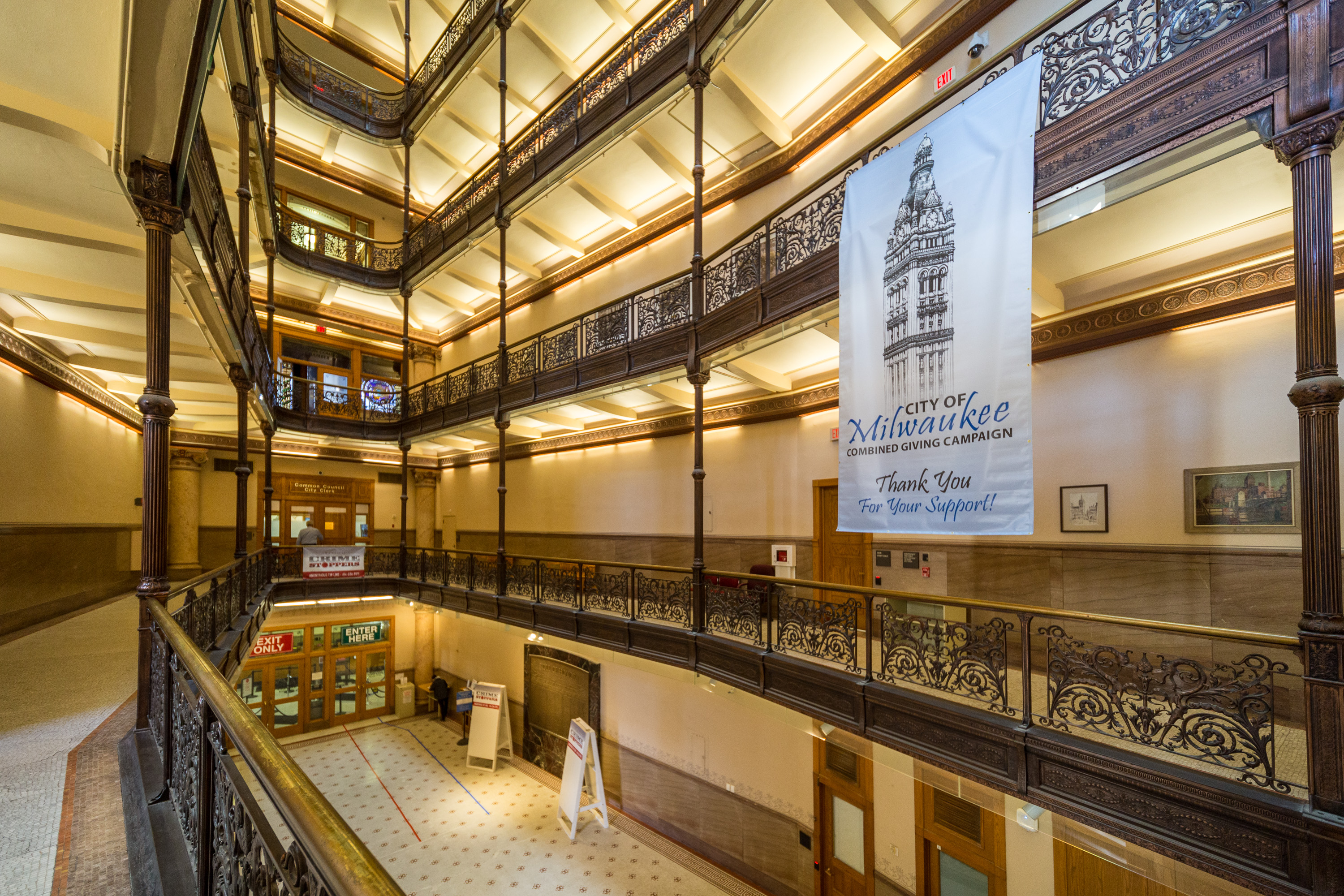 Interior of Milwaukee City Hall, 2019.